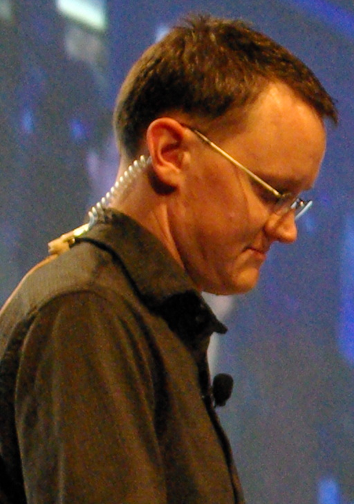 Video game translator and interpreter Bill Trinen (Nintendo) at the Game Developers Conference 2007 panel. Lossless crop of original photograph. Camera: Pentax K10D License on Flickr (2011-06-09): CC BY-SA 2.0